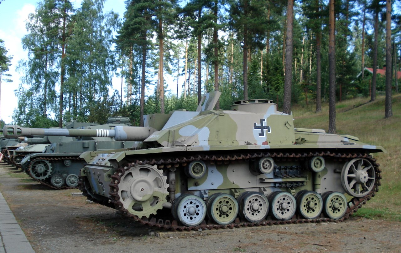 German Sturmgeschütz III, displayed in Finnish Tank Museum (Panssarimuseo) in Parola.